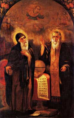 Saints Cyril and Methodius